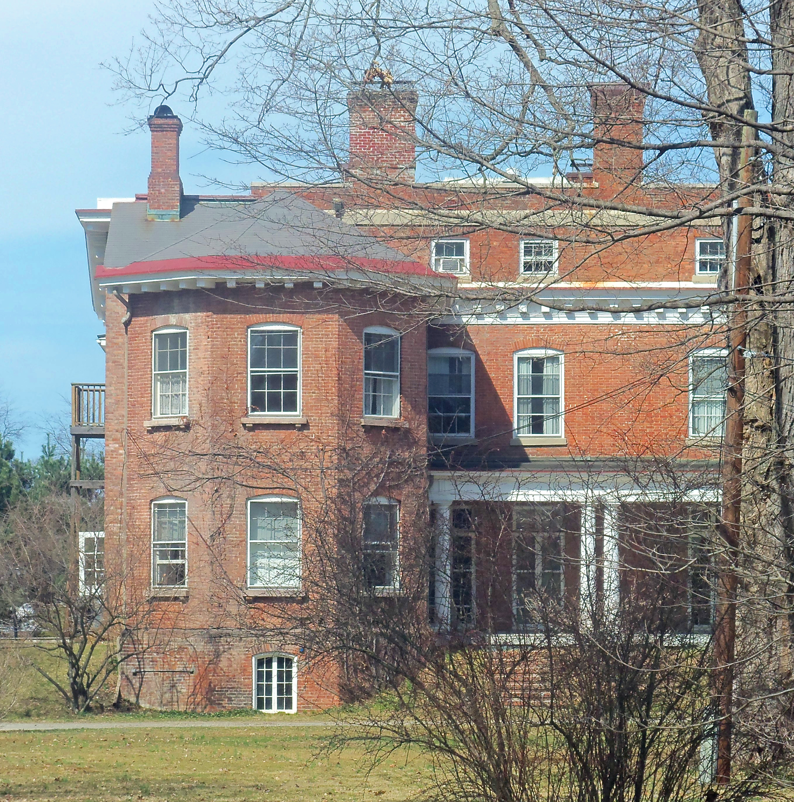 South view of Maizefield, Red Hook, NY, USA, from West Market Street (NY 199)